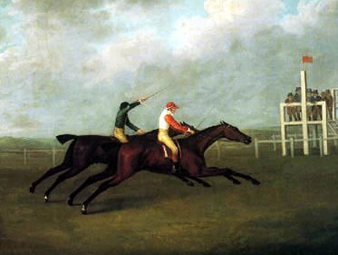 Match race between the British racehorses Sancho and Hannibal (1805) by John Nott Sartorius (1759–1828) Artist dead for 185 years.